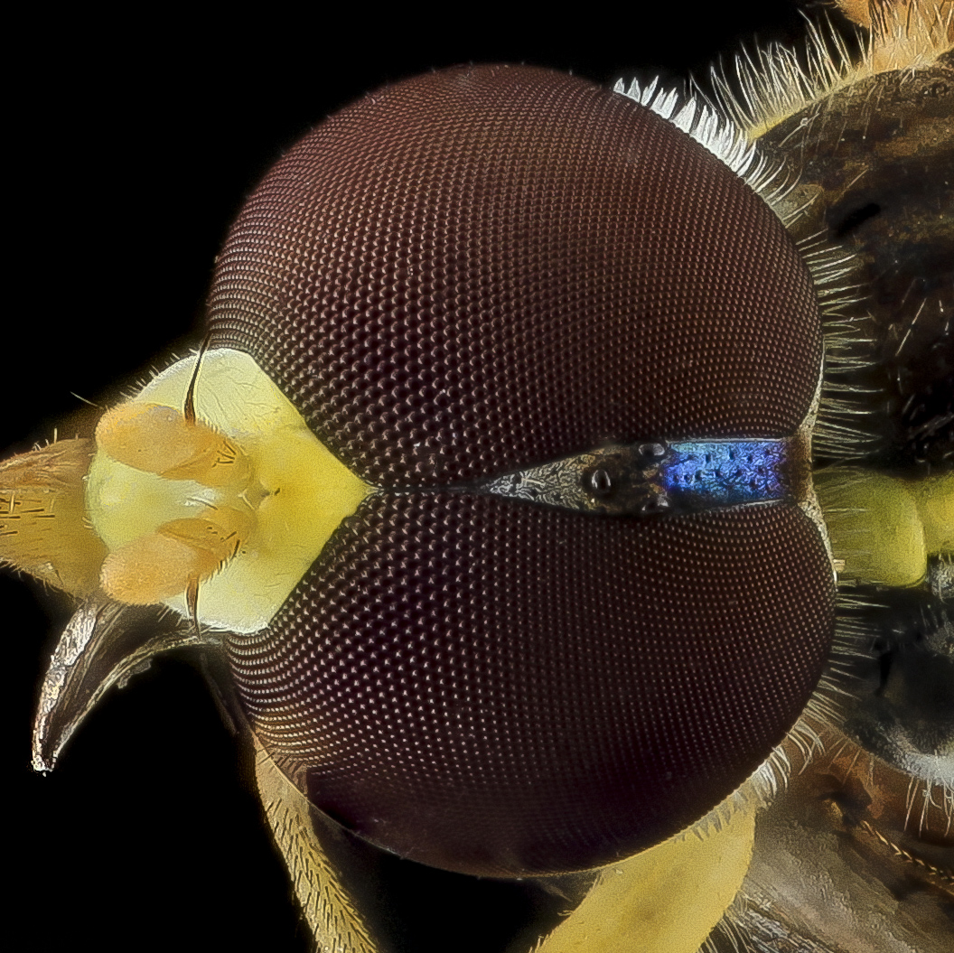 Experiment: Same specimen under 4 media conditions, photographic conditions the same, detail of stacked photo at 3X magnification the fly in this case is in the air outside of the cuvette